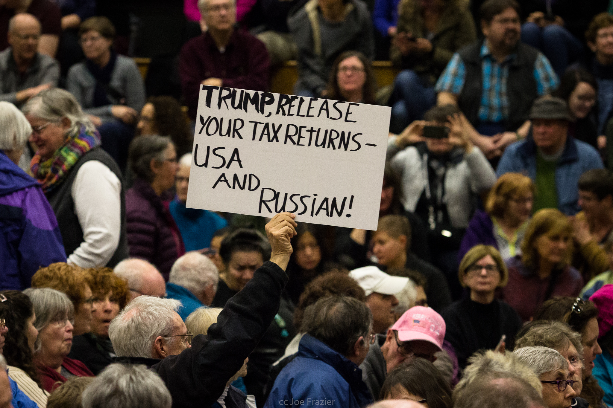 Town Hall - Ron Wyden, Multnomah County Feb 25, 2017 David Douglas H.S., Portland, OR